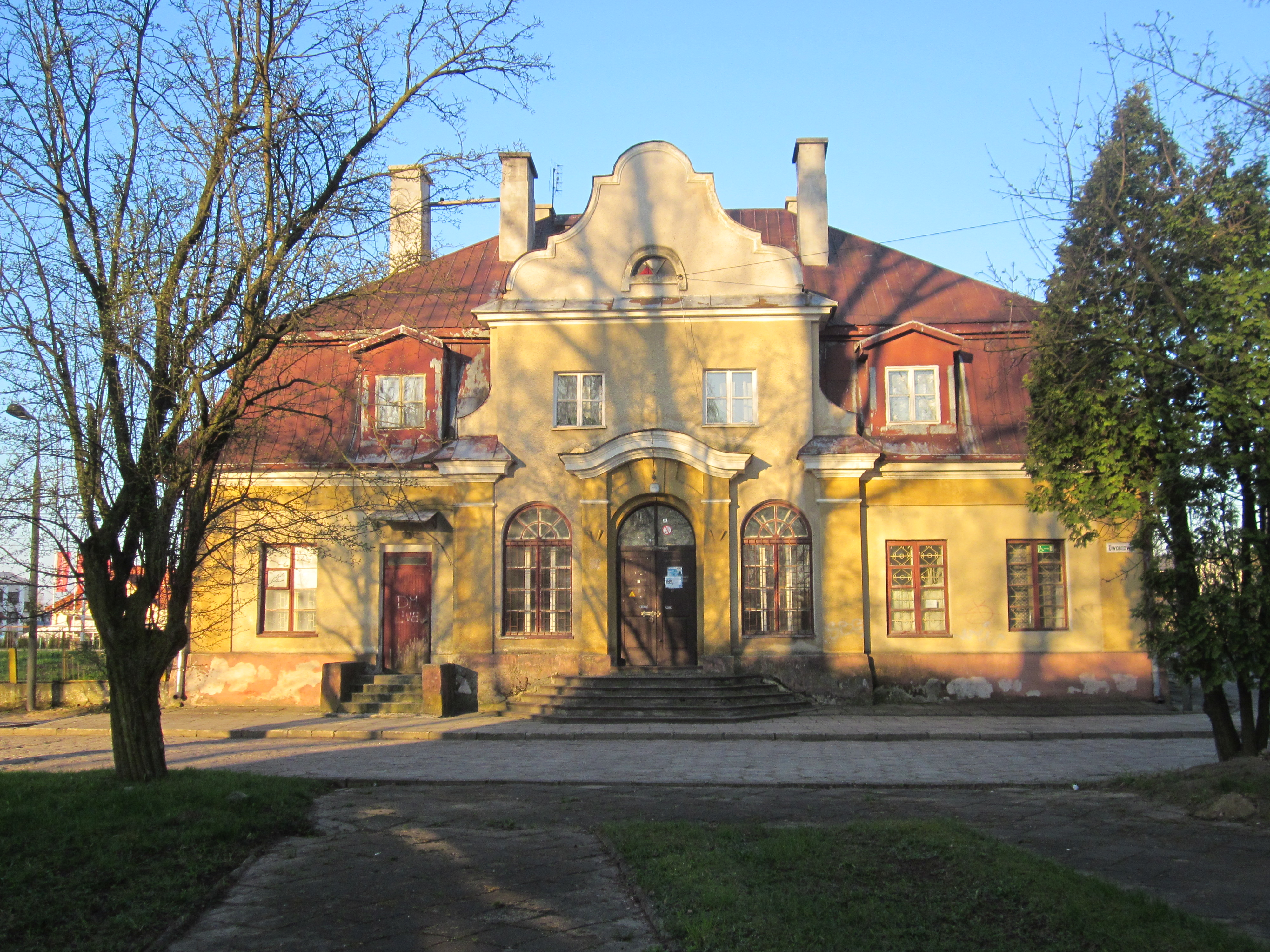 Mońki train station, at Dworcowa streetLietuvių: Monkų geležinkelio stotis